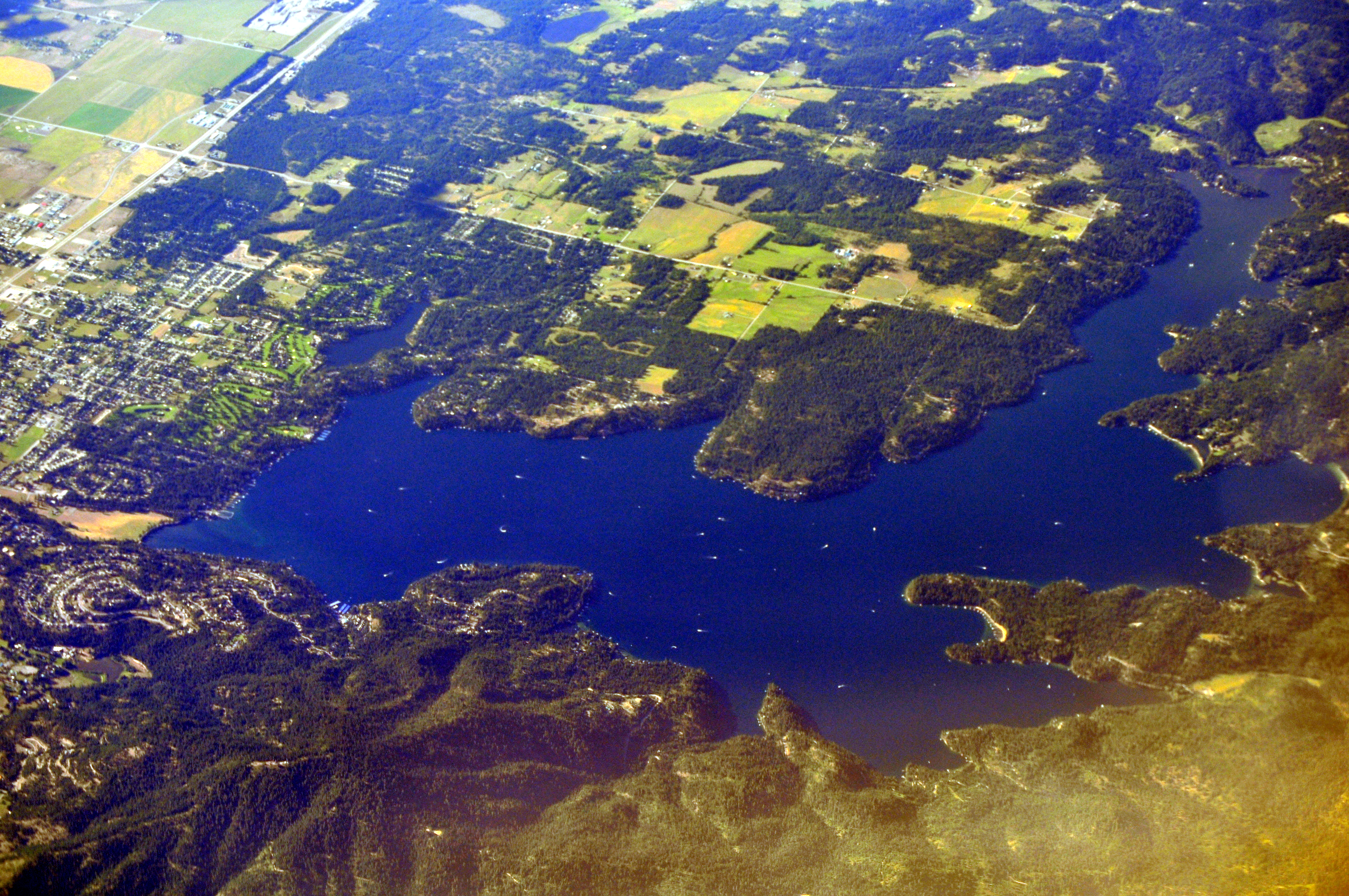 Aerial view of Hayden Lake, Idaho (the city, and the eponymous lake).